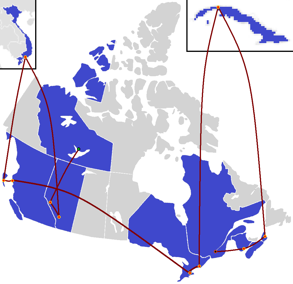 The route map of The Amazing Race Canada 4